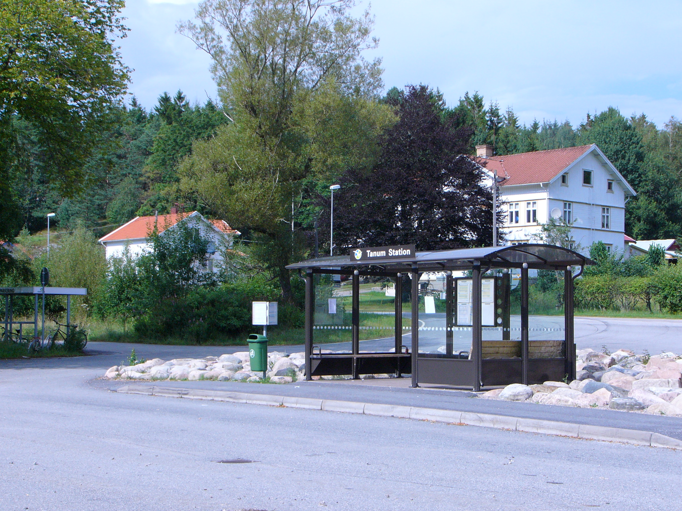 The train/bus shelter at Tanums station